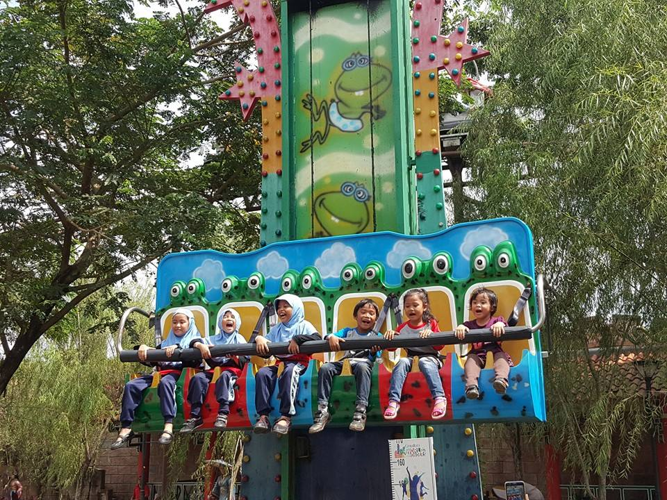 Citra Raya World of Wonders, Tangerang, Banten